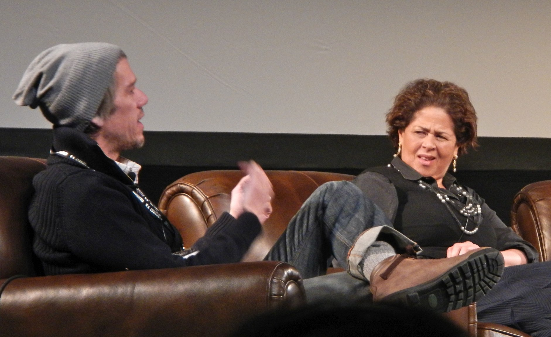 Stephen Gaghan, Anna Deavere Smith and Andrew Stanton The Power of Story: In the Beginning at Sundance 2012